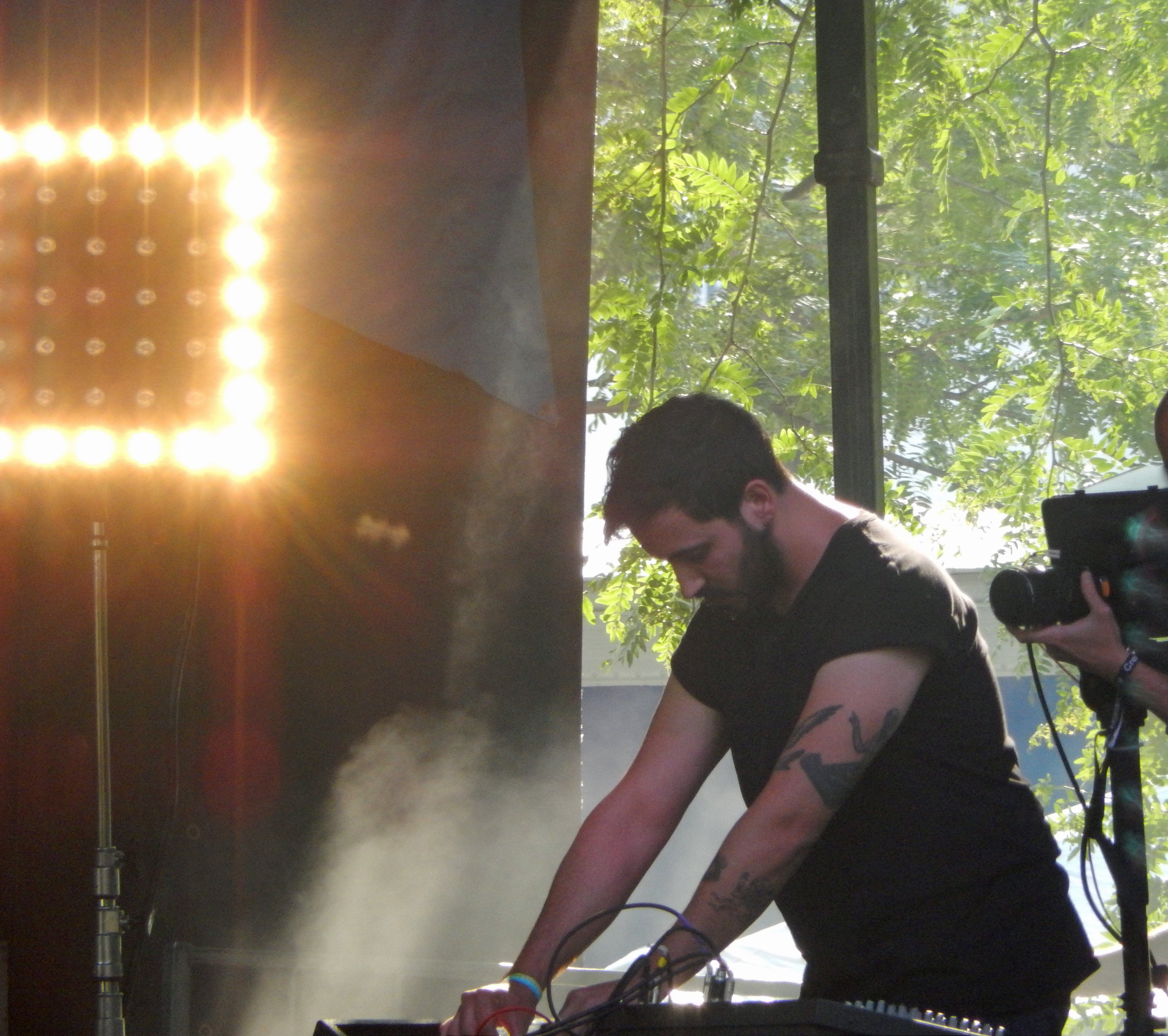 The Haxan Cloak @ Pitchfork, Chicago 7/18/2014